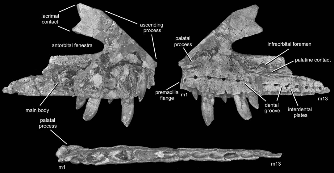 Right maxilla of rauisuchian Teratosaurus suevicus Meyer, 1861 from Mittlerer Stubensandstein, Upper Triassic of Heslach, Germany, NHM 38646, holotype. Photographs in lateral (A), medial (B), and ventral (C) views. Designation “m” refers to maxillary tooth position.